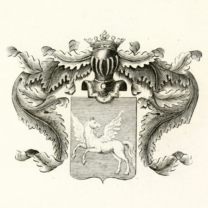 Coat of arms of the House of Rykachev